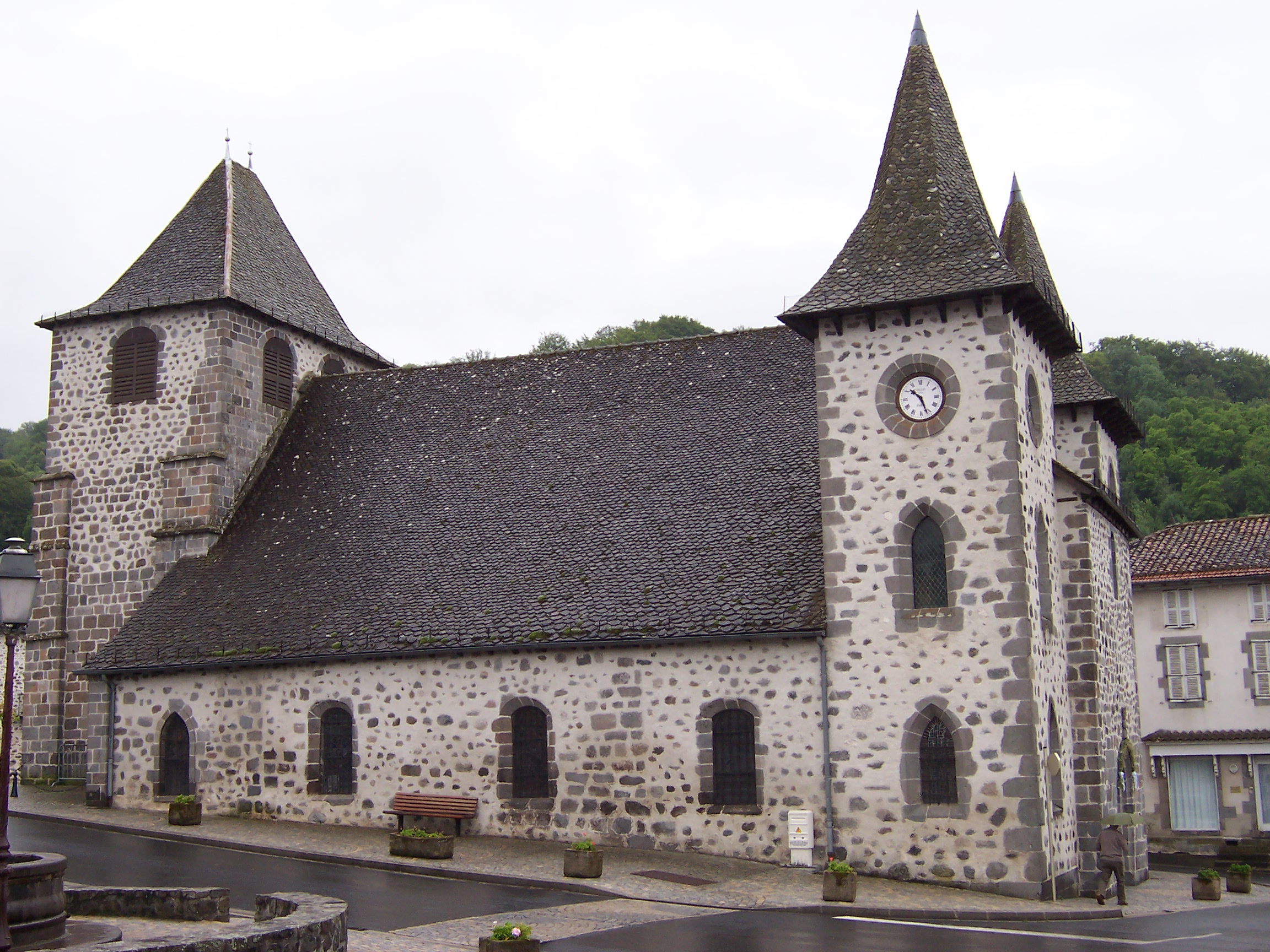 church of the village of Jussac (Cantal)